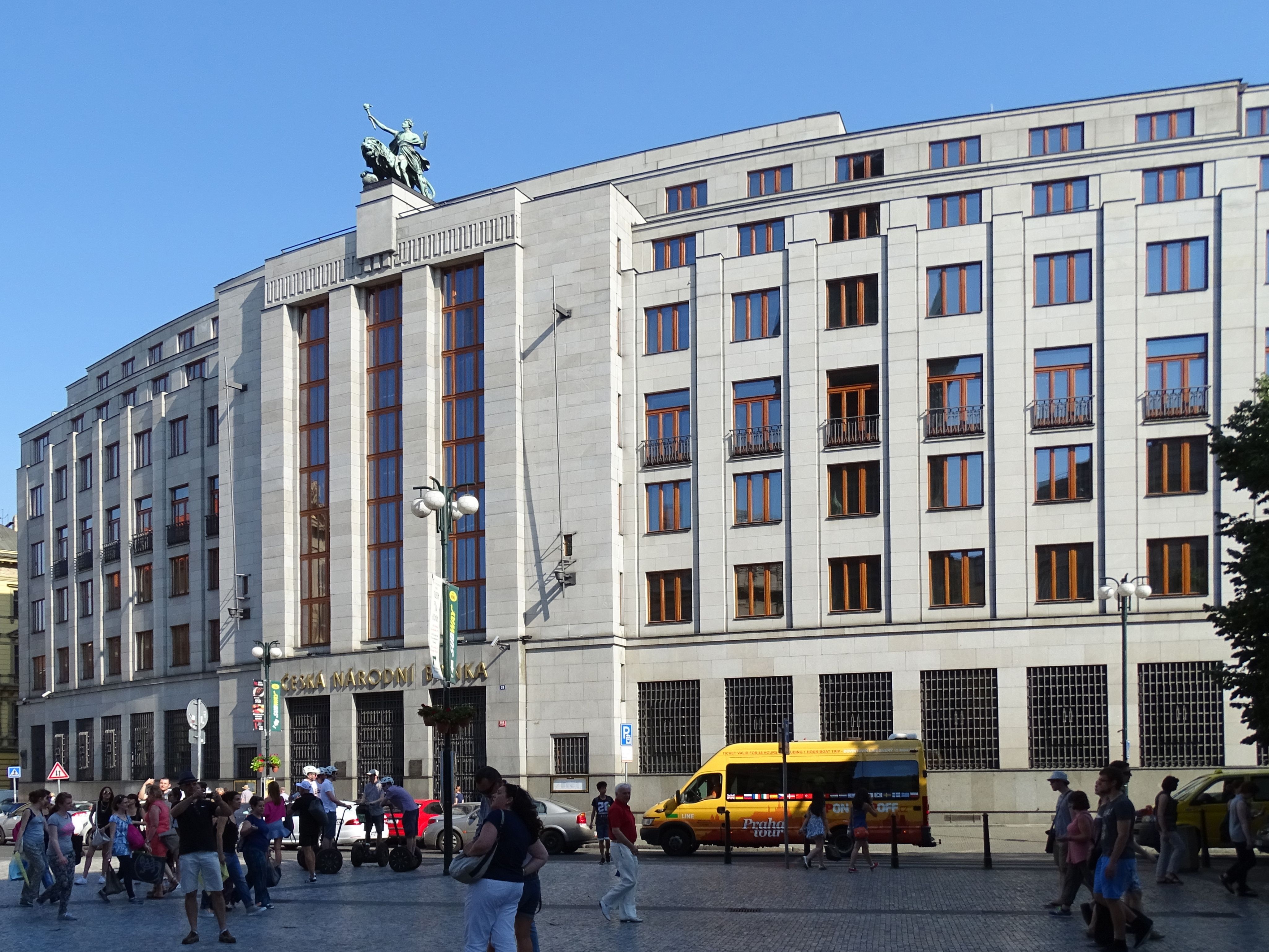 Prague-New Town, Czech Republic. Na příkopě 864/28, Czech National Bank.